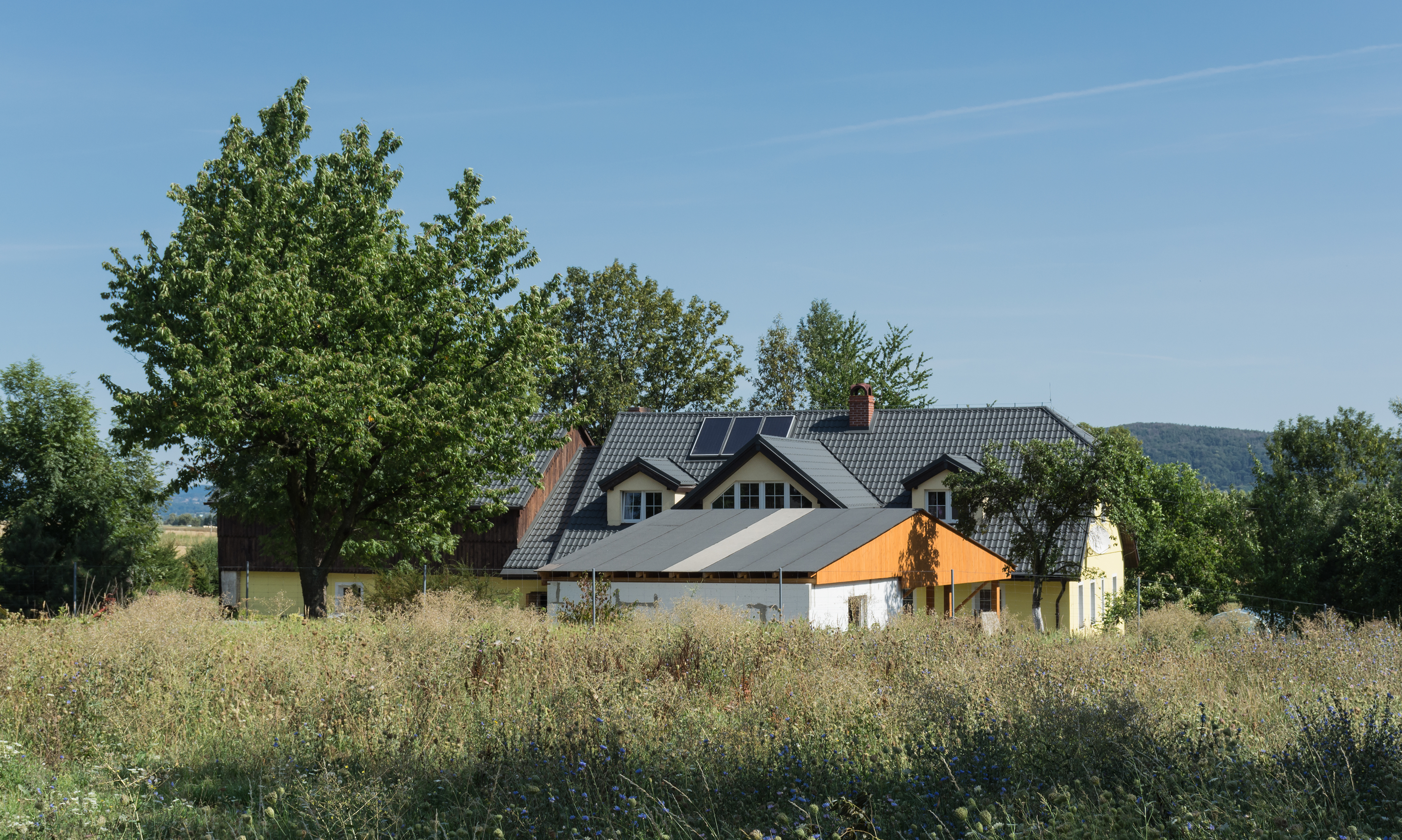 House in Szklarka